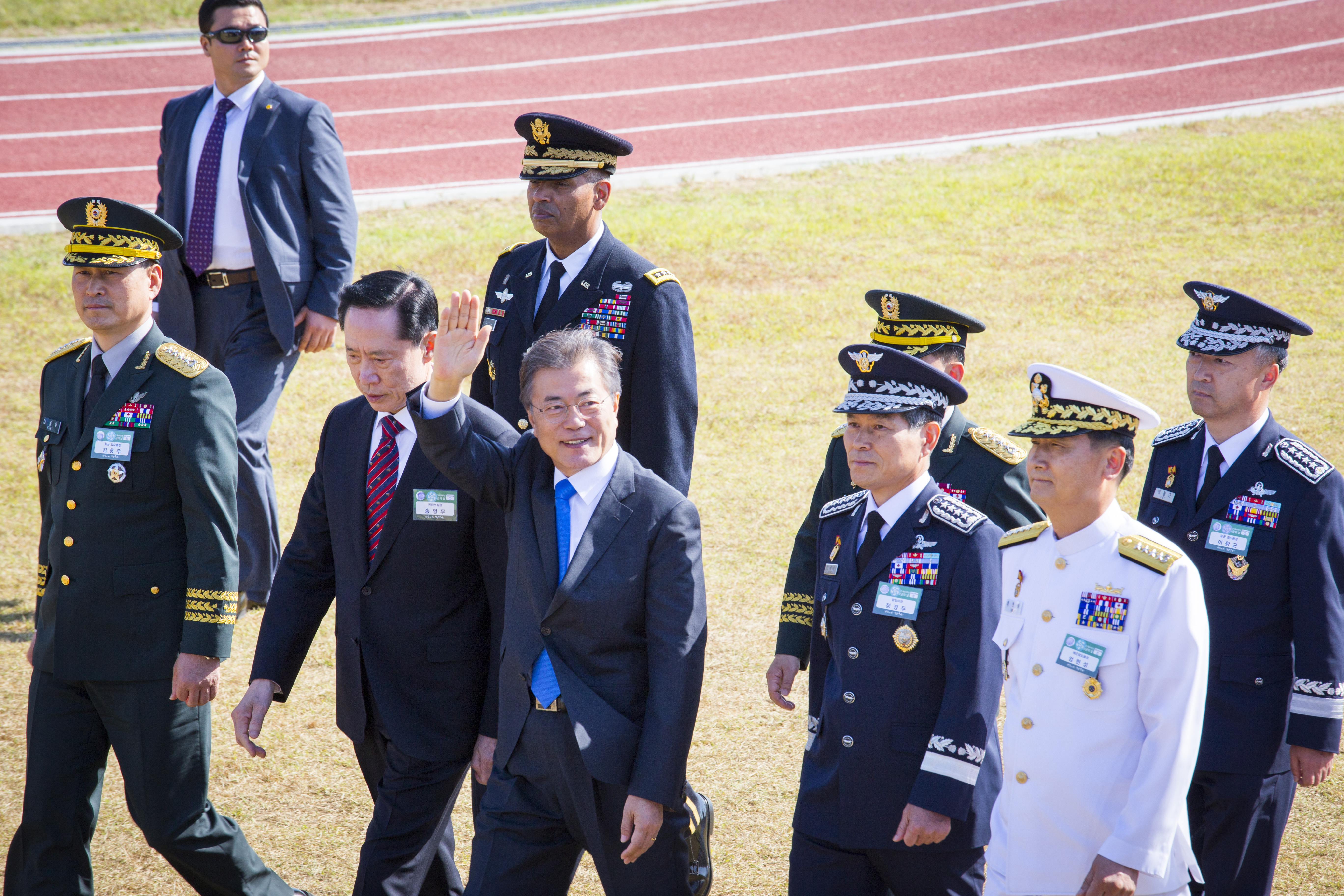 170928-A-CD114-0066